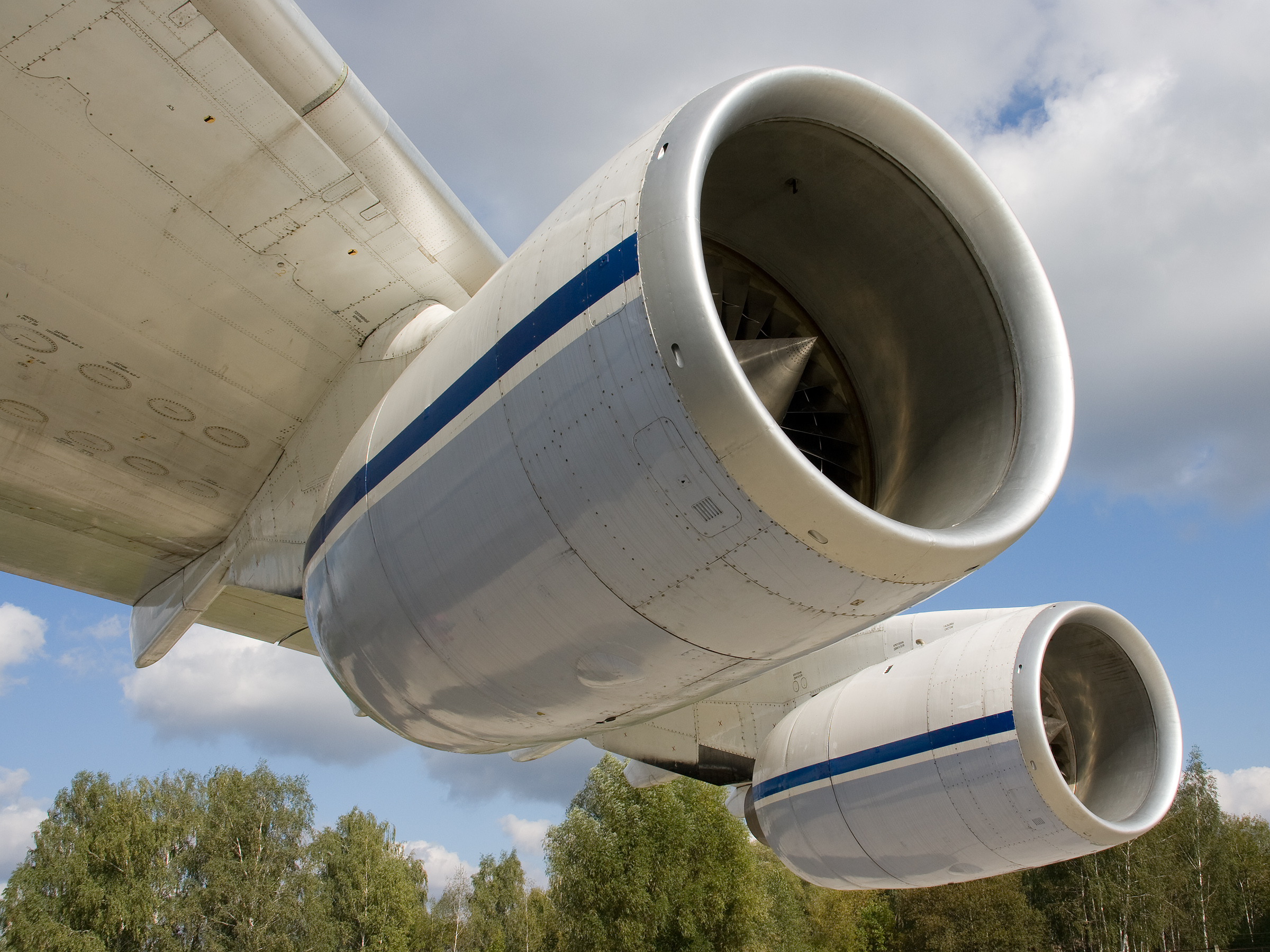 Two ZMKB Progress D-18T Series 4S powerplants on Antonov An-124 "Ruslan"